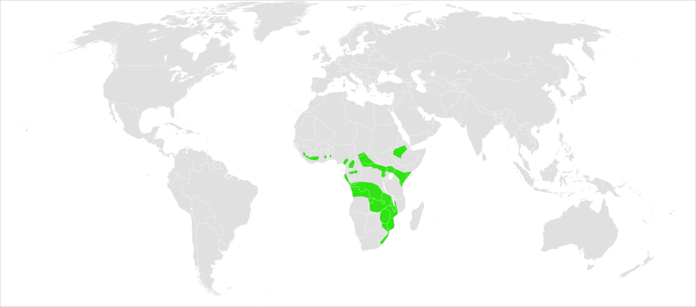 Distribution Map for Hieraaetus ayresii (Ayres's Hawk-Eagle)